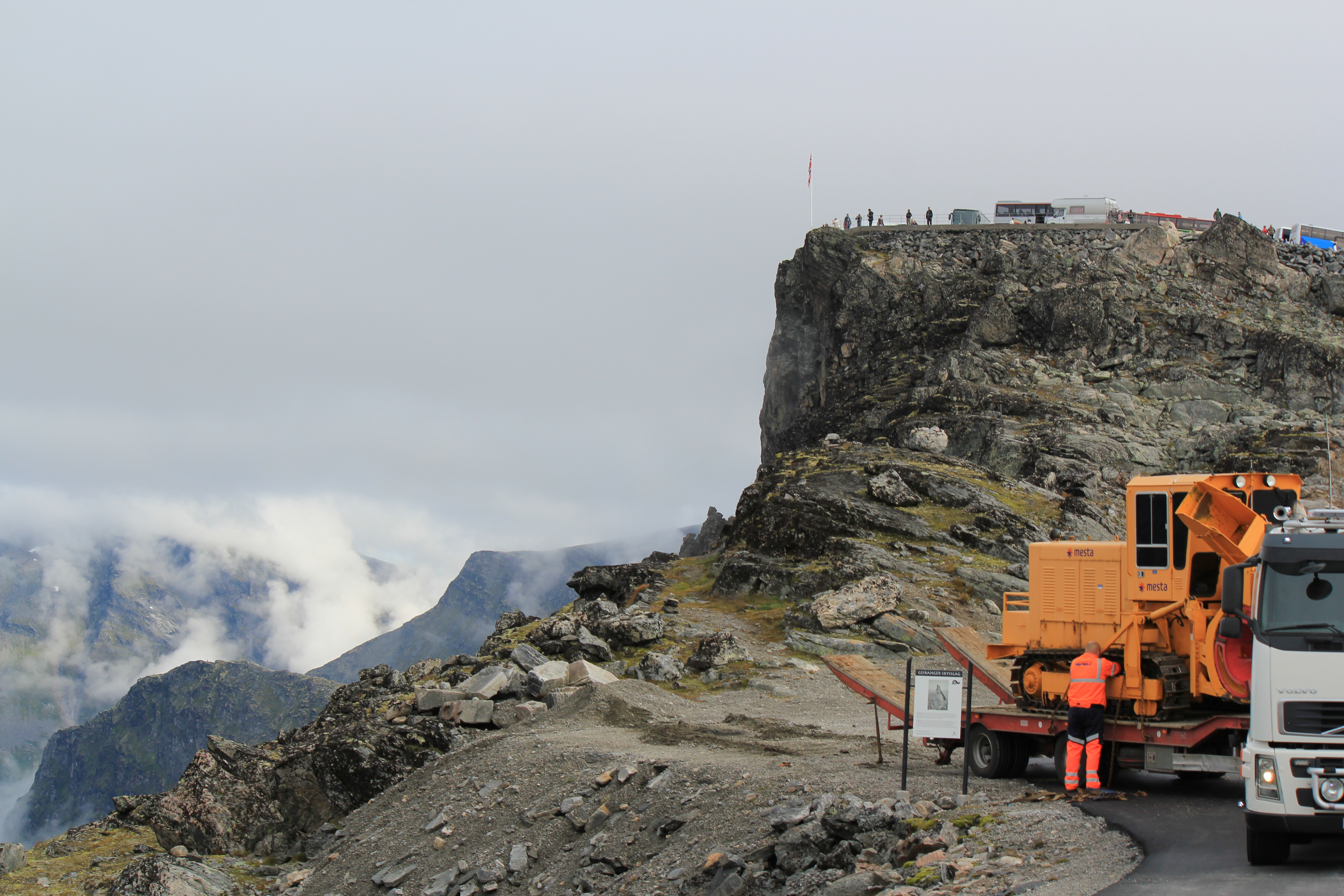 Road Construciton work at the about 2010 new asphalted Nibbevegen